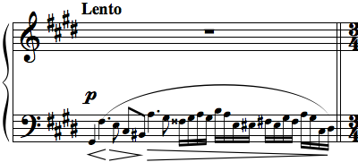 Excerpt from Chopin's Etude Op.25 No.7